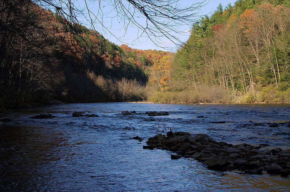 At Lehigh Gorge State Park, Pennsylvania; Rockport access.